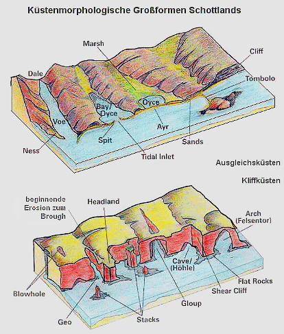 Coastal Structures Scotland